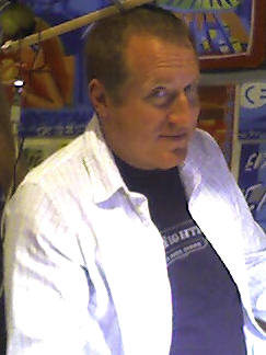 Video game designer Seamus Blackley (formerly of Looking Glass Technologies).